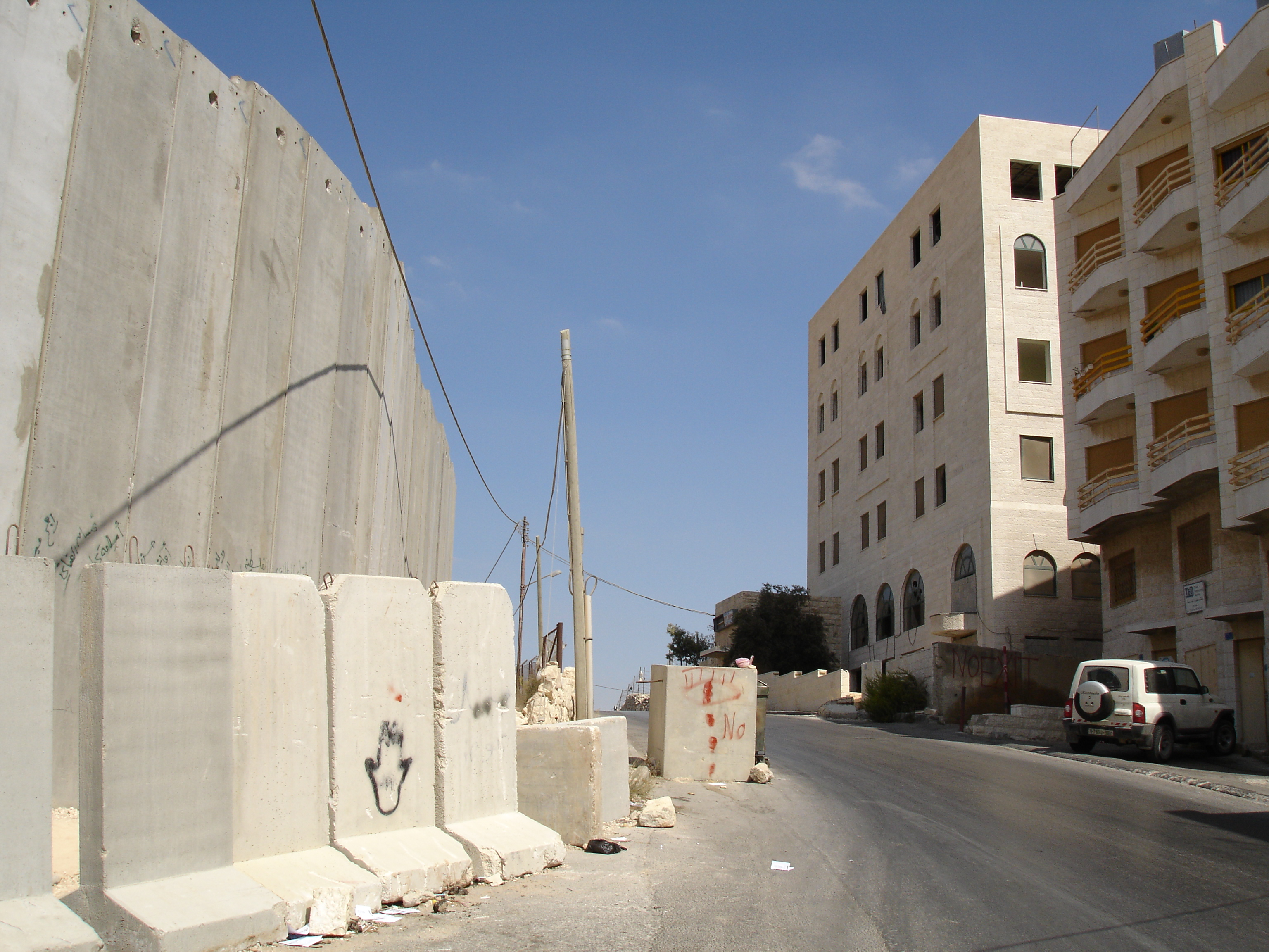 A street in Bethlehem, next to the tomb of Rachel.